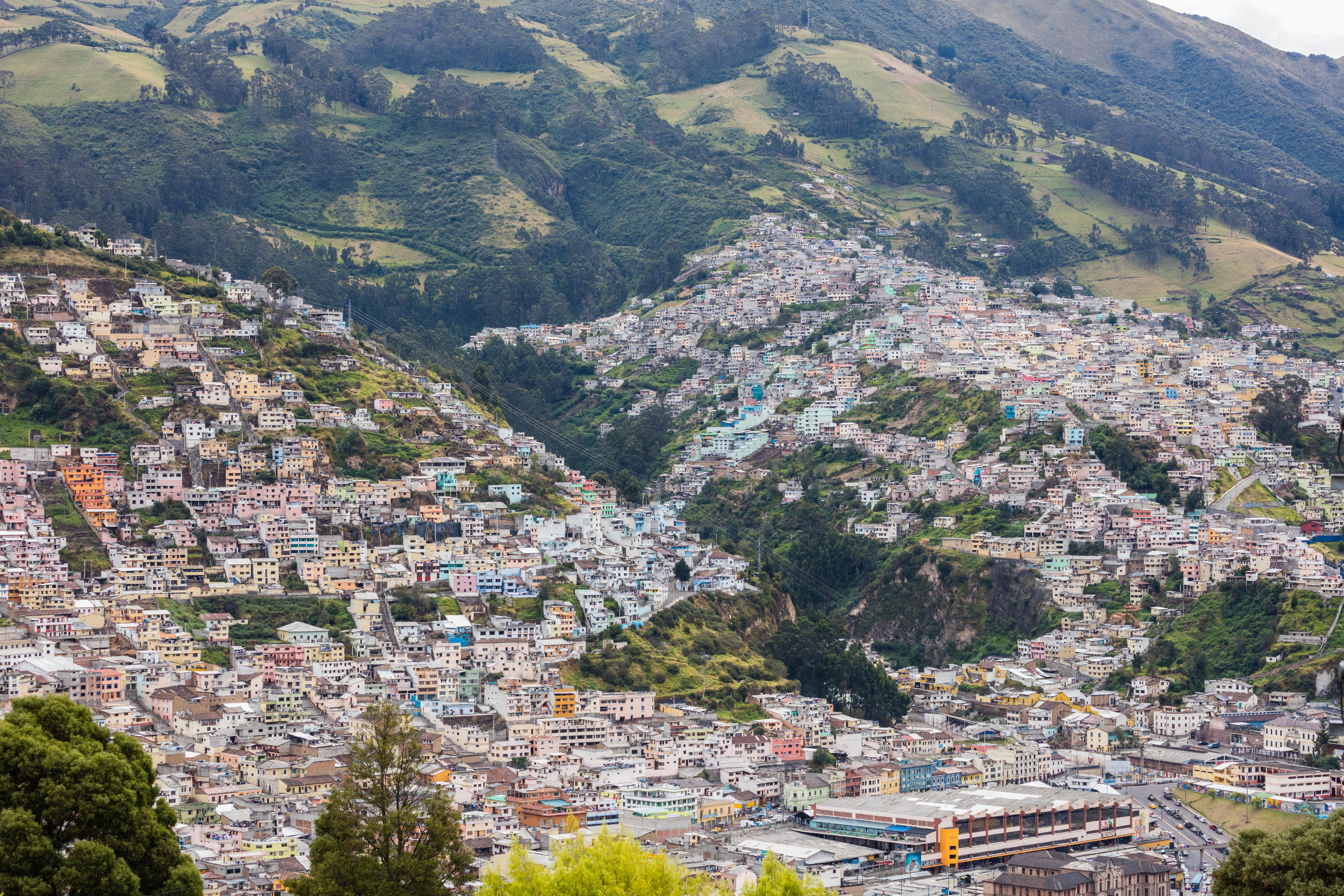 View of Quito from El Panecillo, Ecuador